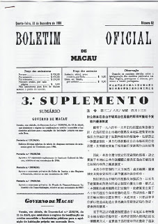 Official Journal of Macau - Álvaro de Melo Machado